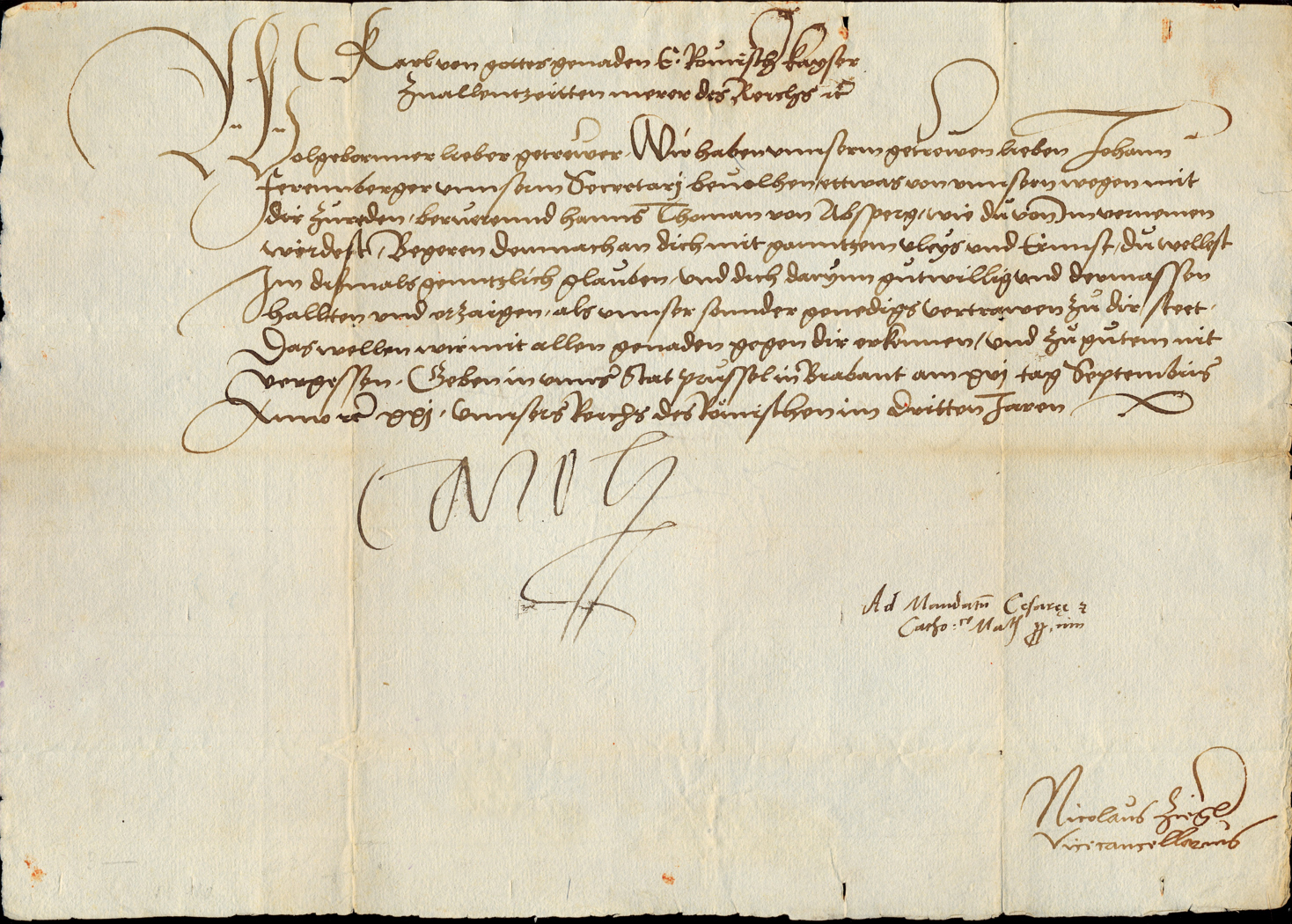 A letter of Charles V to count Wolfgang zu Öttingen dated September 26, 1521, on sending Thomas Fernberger to the count to explain the emperor's suggestions concerning the further course of action against Hans Thomas of Absberg who, in July 1520, had killed the count's cousin and later, in May 1521, had kidnapped and imprisoned two important imperial councillors.